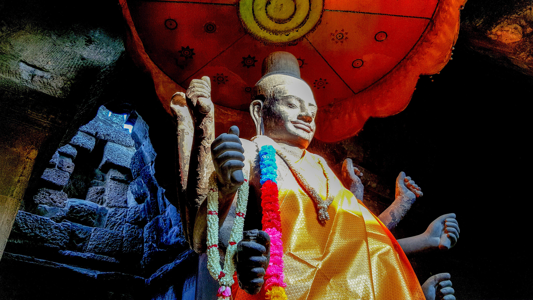 A statue inside the Angkor Wat in Cambodia.